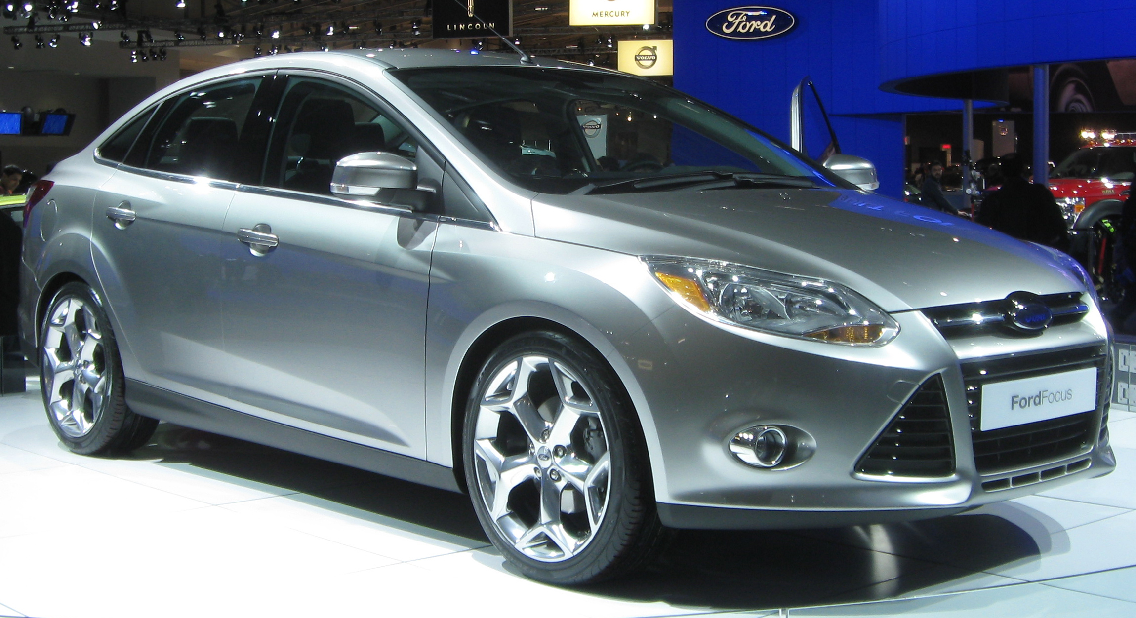 2012 Ford Focus photographed at the 2010 Washington Auto Show.